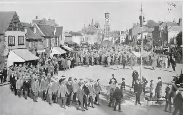 Queue of volunteers to join the University and Public Schools Battalion (UPS) of the Royal Fusiliers, in Epsom High Street, Surrey, United Kingdom, on September 19 1914.